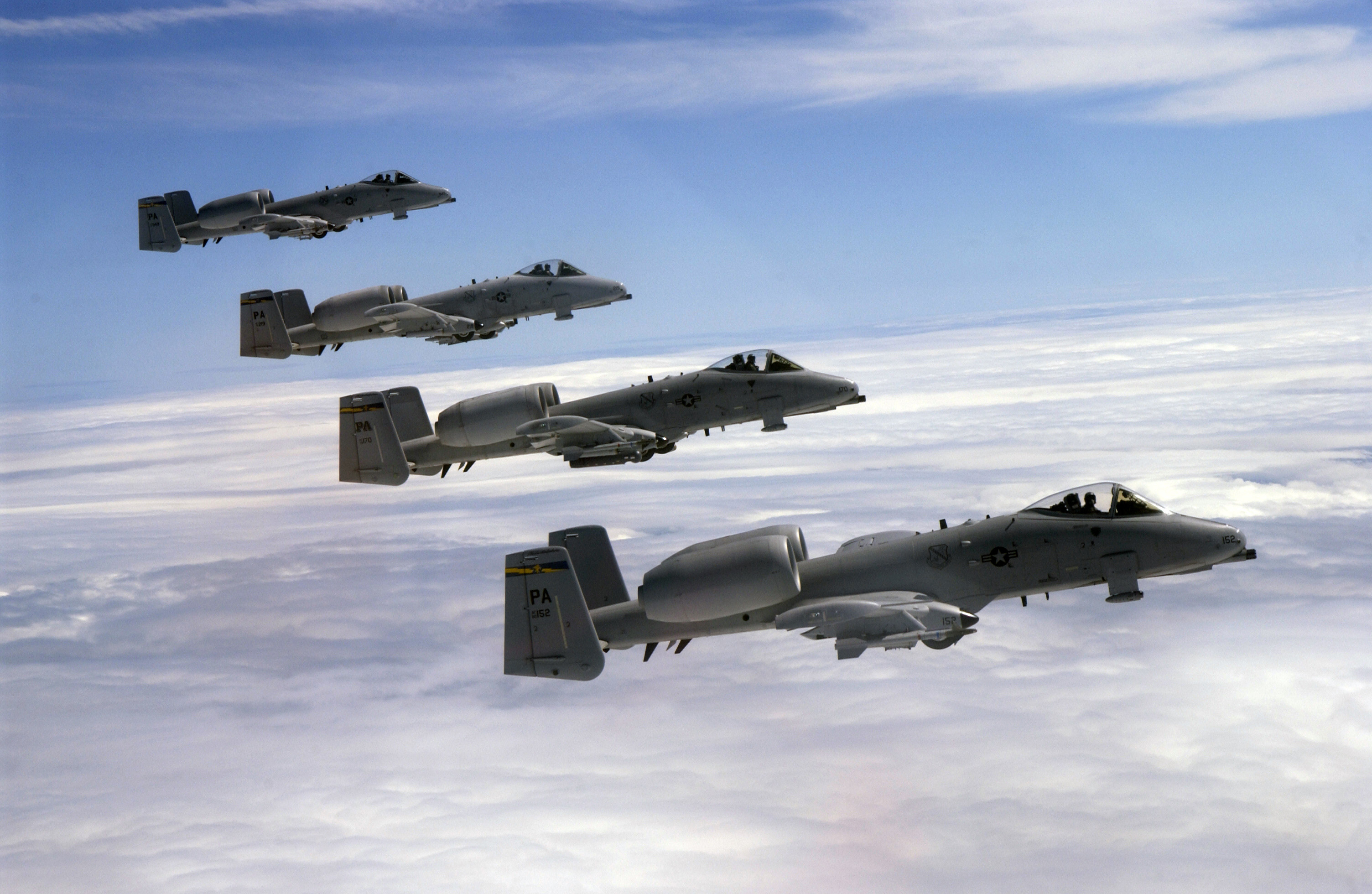 Four A-10s from the 111th Fighter Wing (FW), Willow Grove Air Reserve Station, PA fly in formation after taking on fuel from a KC-10A Extender from the 514th Air Mobility Wing, McGuire Air Force Base, NJ. The A-10s were on a training mission that included the air refueling.